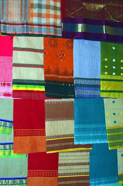 Several Bengal cotton and silk sarees on display at a speciality store in Kolkata, West Bengal, India.